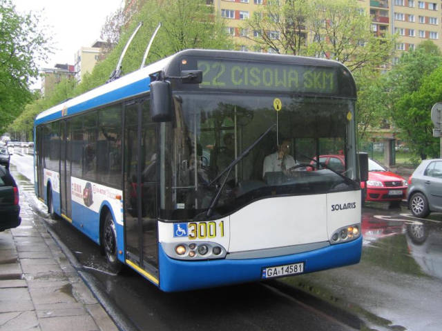 Solaris Trollino 12T trolleybus (#3001) in Gdynia, Poland. Built 2001.